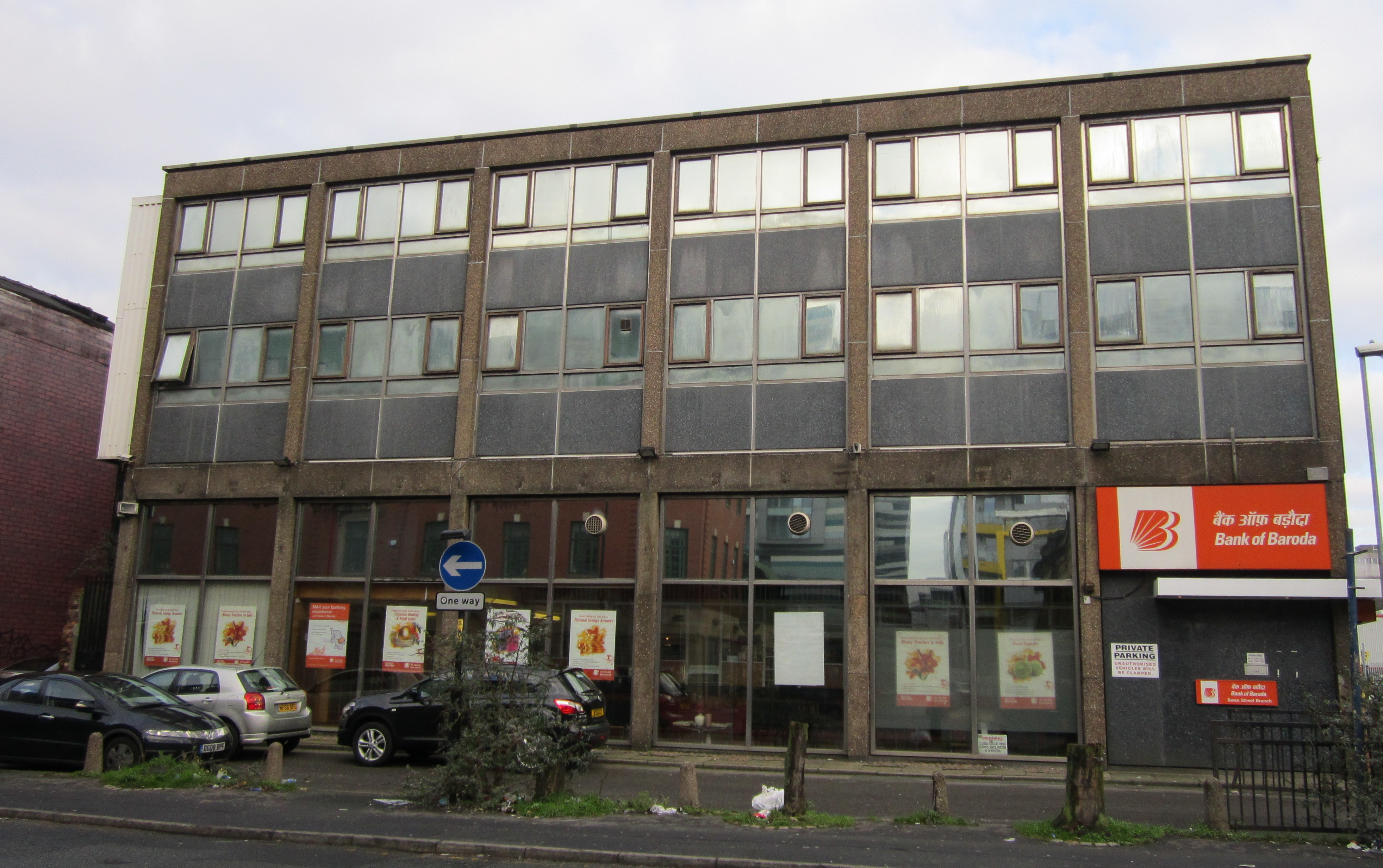 Bank of Baroda, Swan Street, Manchester, England.